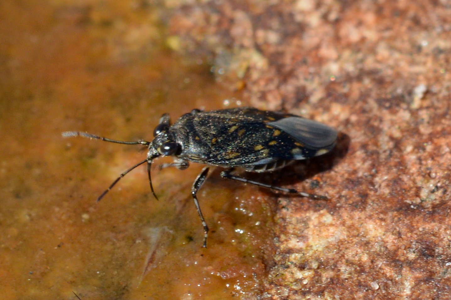 Pentacora ligata at Blockbuster Island in Killarney, Ontario, Canada.